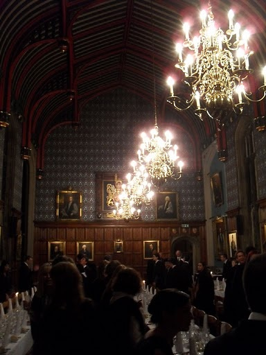 The Dining Hall of Corpus Christi College during a matriculation dinner.